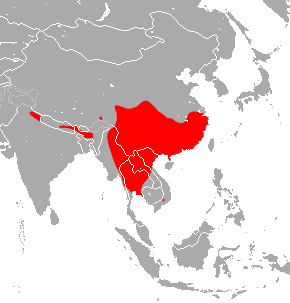 Pearson's Horseshoe Bat (Rhinolophus pearsonii) range